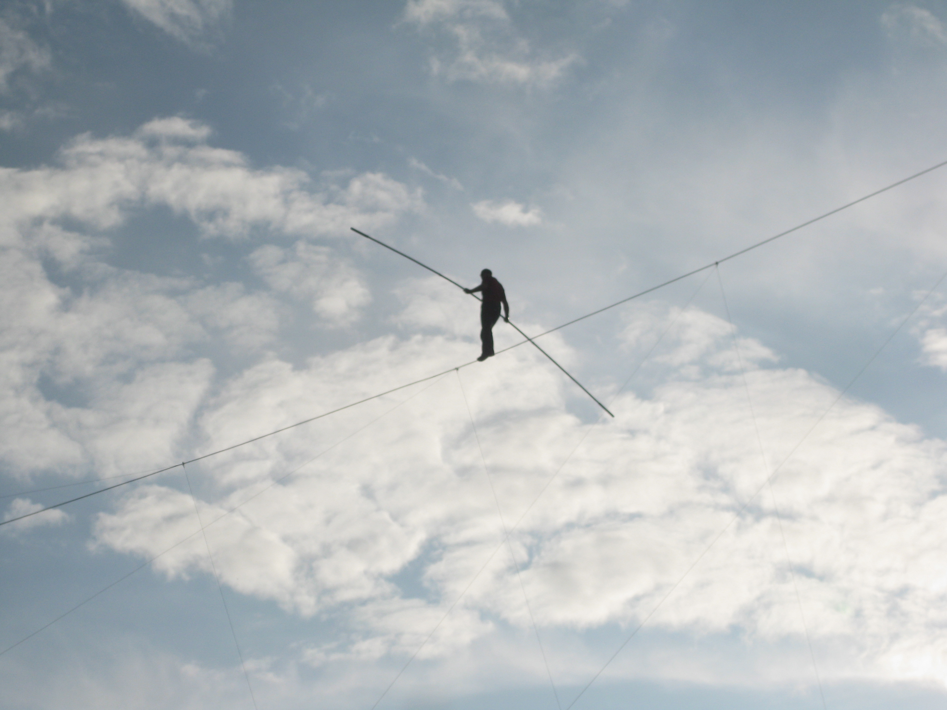 This is a photo of Nik Wallenda walking on a tight rope from Medieval Fare to Wonder Mountain at Canada's Wonderland.